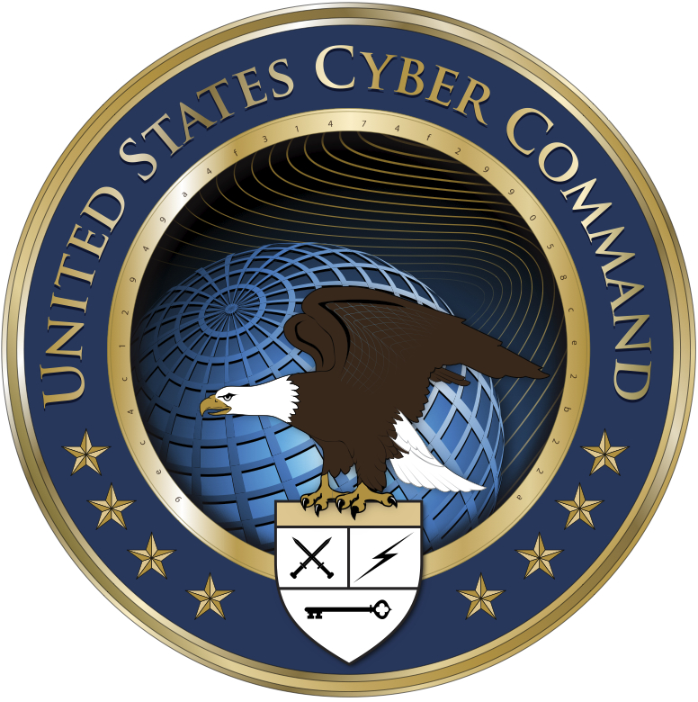 USCYBERCOM Logo